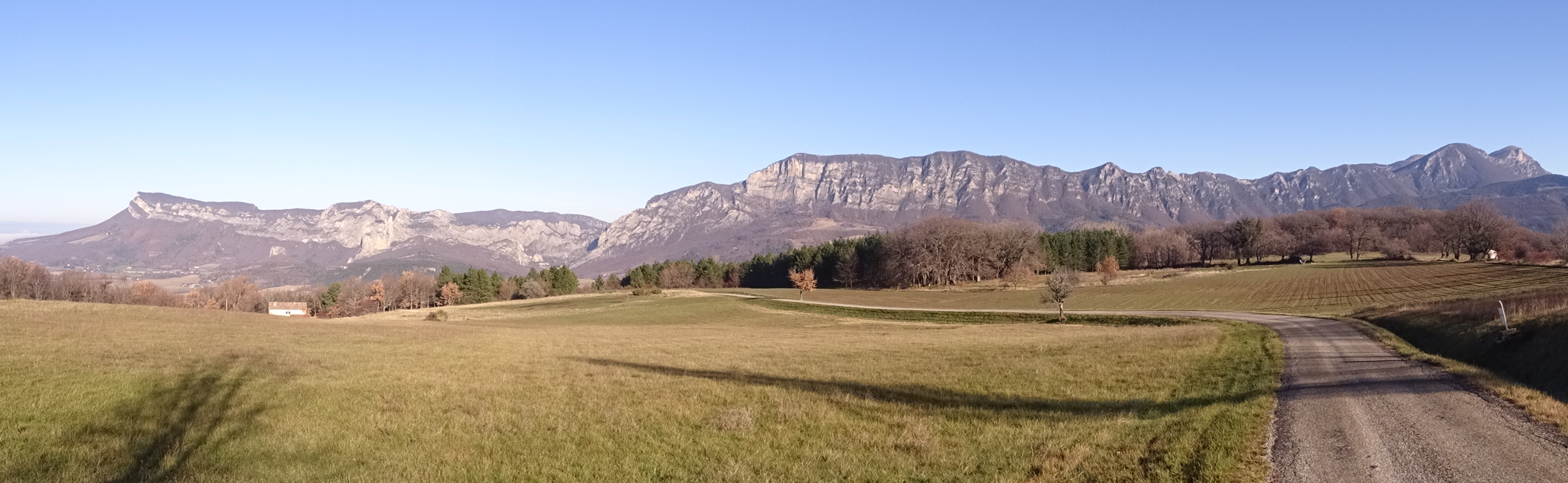 Syncline from the Saou forest